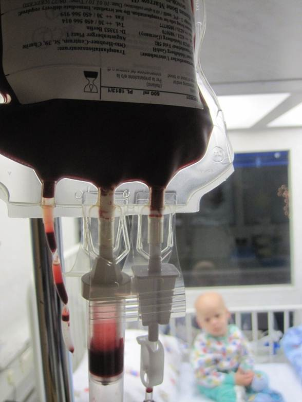 The picture shows a bone marrow transplantation.